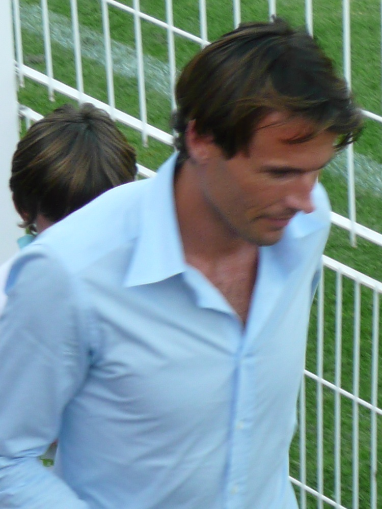 Former french soccer player